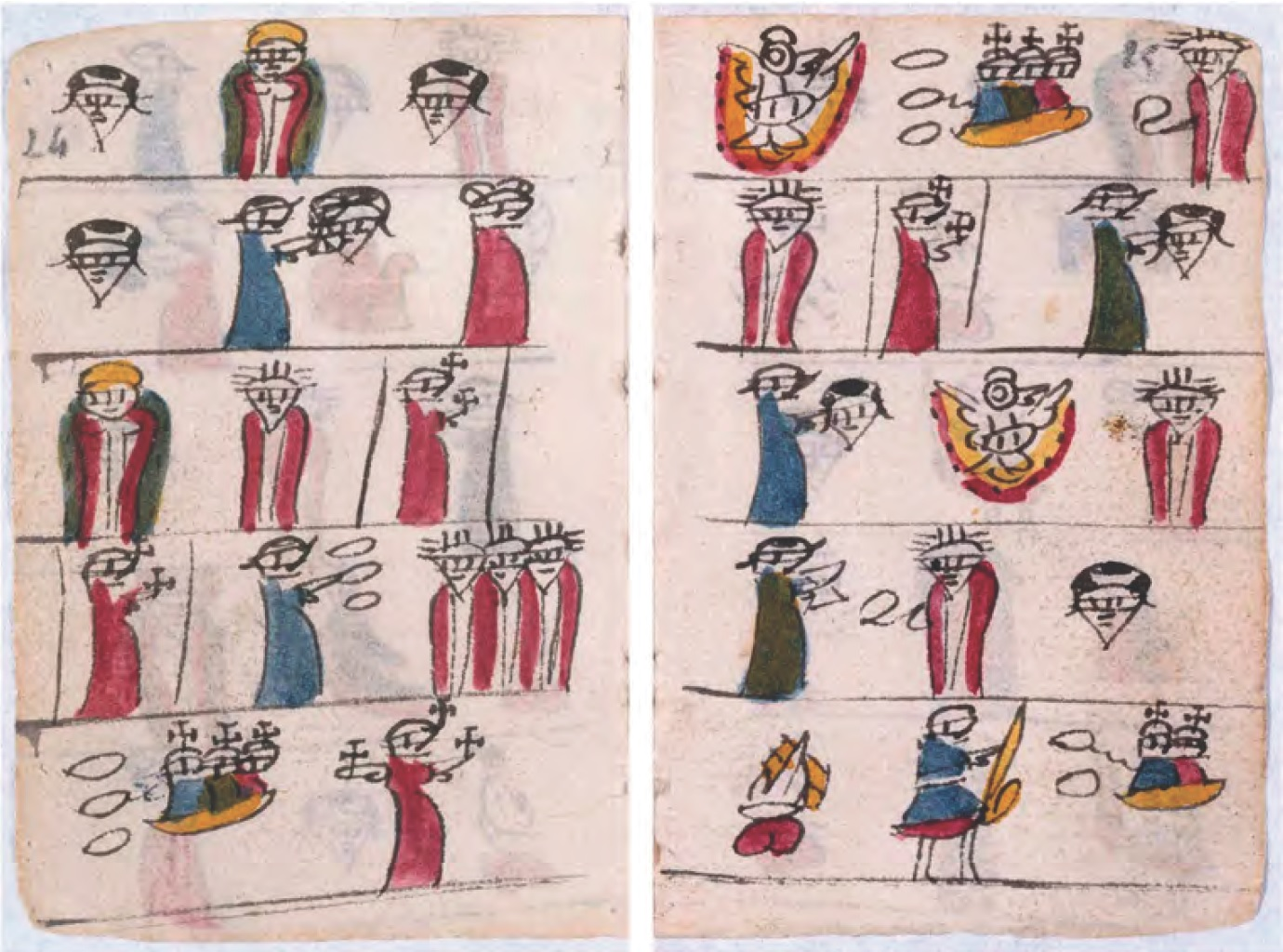 Testeriano (pictographic catechism) made for Mexican natives by Pedro de Gante